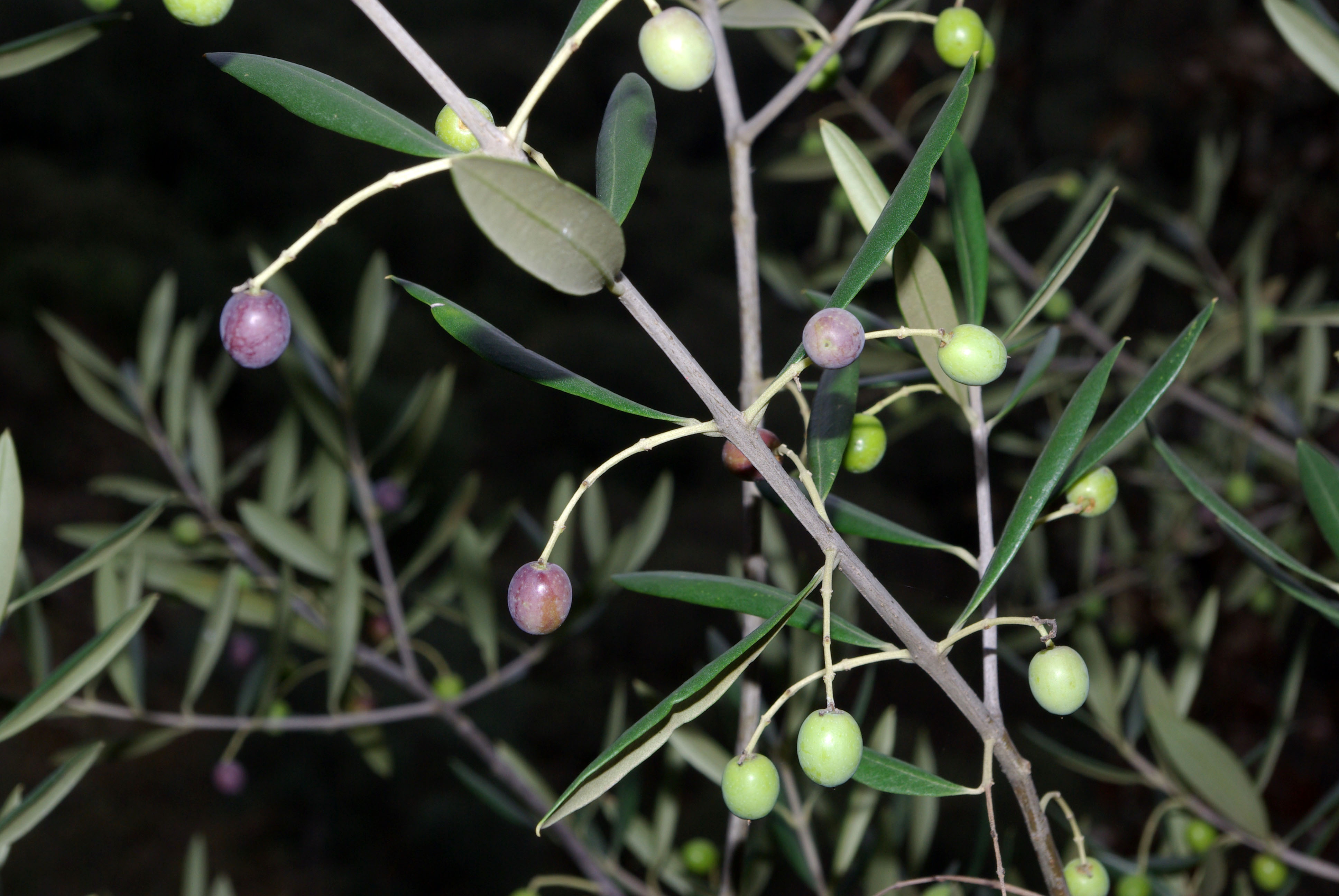 Olive (Olea europaea). In Monfragüe, Cáceres (Spain)